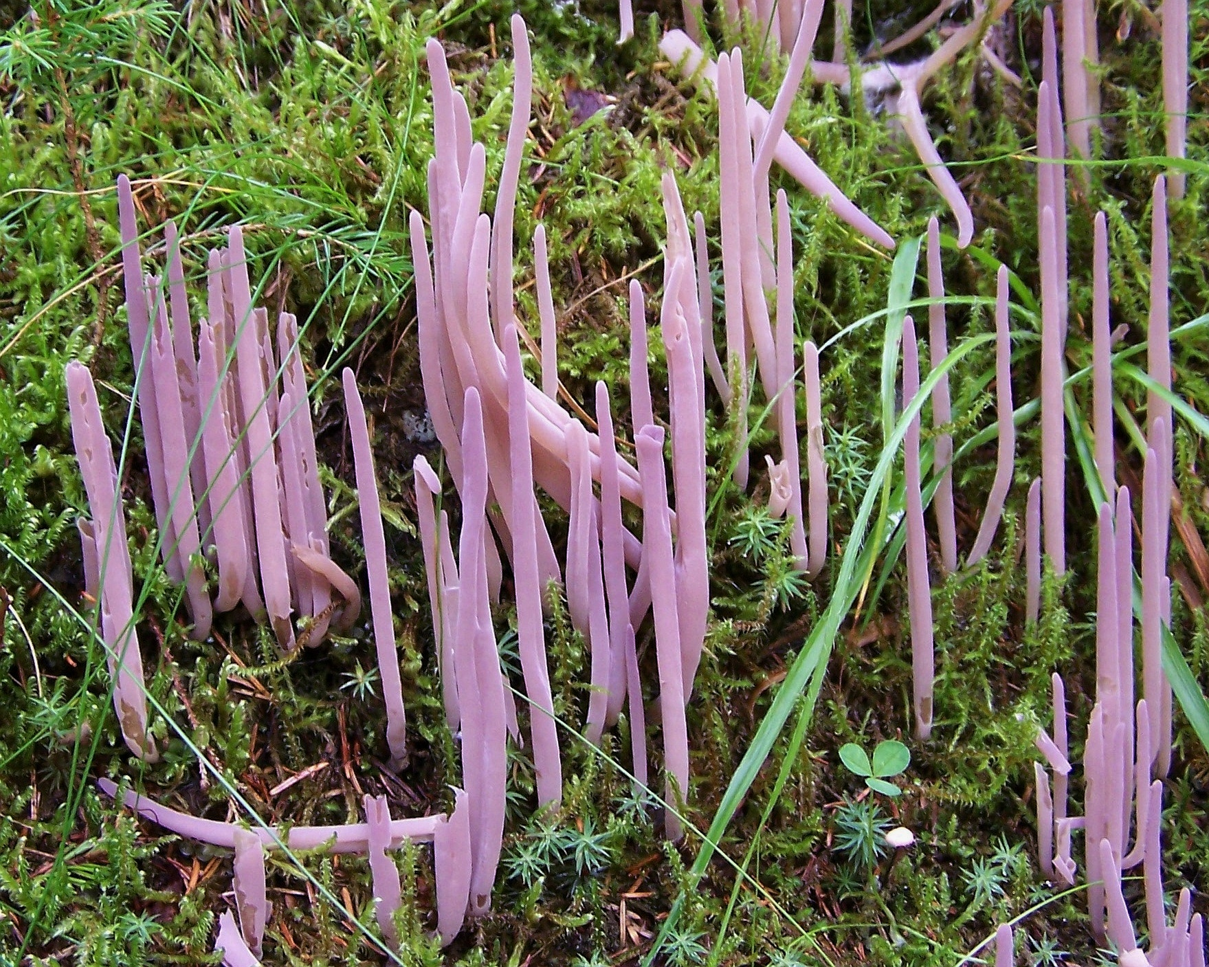 Clavaria_purpurea (habitat:Dolina Chochołowska, Tatra Mountains)